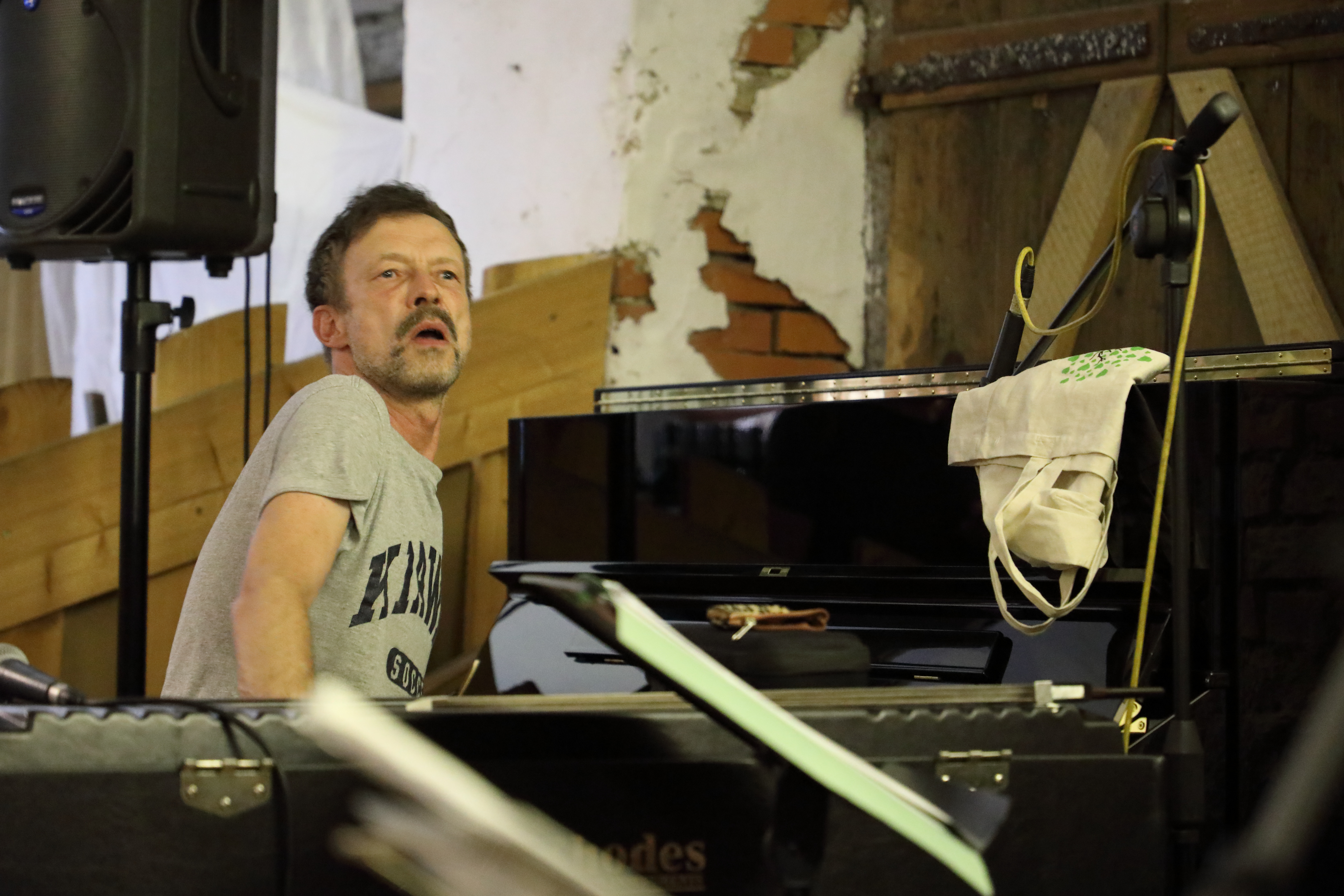 Web Web are Roberto Di Gioia (piano, synth, perc), Tony Lakatos (tenor sax, soprano sax), Christian von Kaphengst (db) & Peter Gall (dr). Here´s the concert at INNtöne Jazzfestival 2019 in the former hog house, now called St. Pig´s Pub.